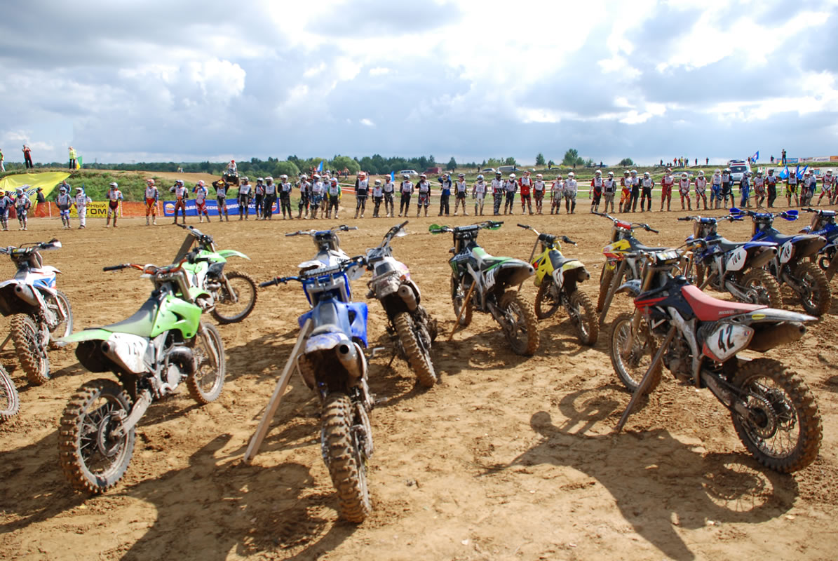 Start in a national competition of country-cross, Russia, Burtsevo, 28-08-2009